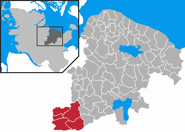 This map shows the area of the Amt (county) Bokhorst in the Kreis (district) Plön, Schleswig-Holstein, Germany.